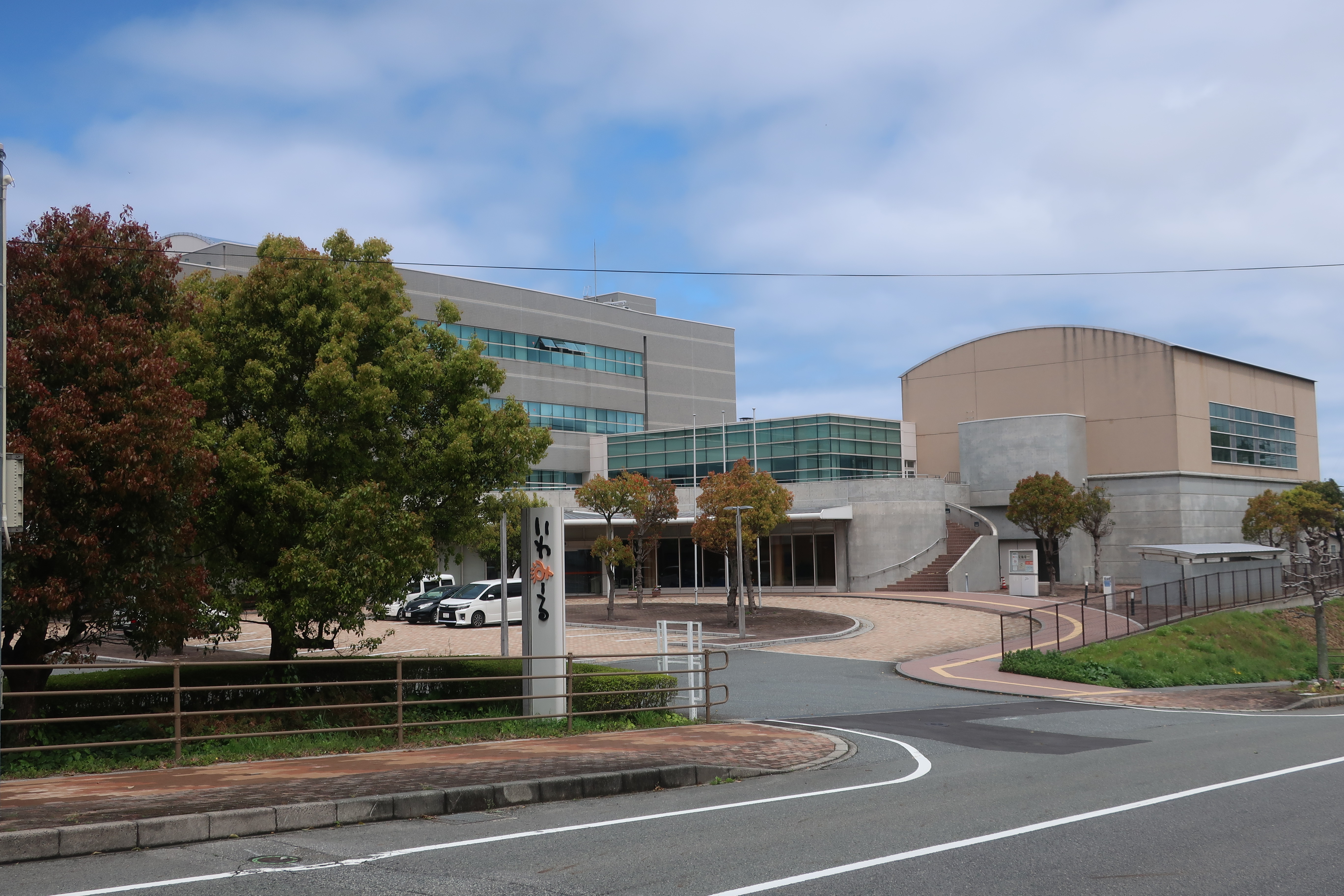 The picture of composite facilities in Shimane Prefecture, Japan